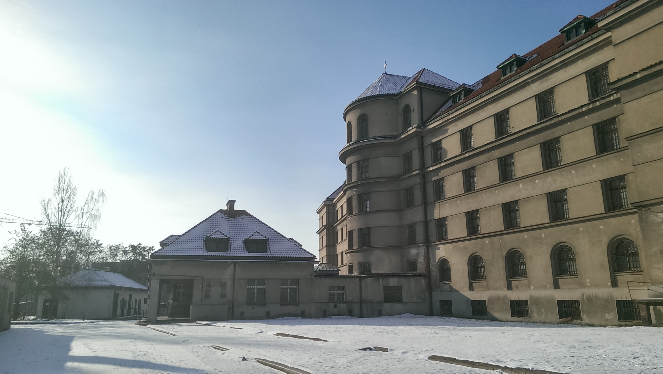 A former prison connected to the building of the District Court in Mladá Boleslav. Currently used as a movie location.